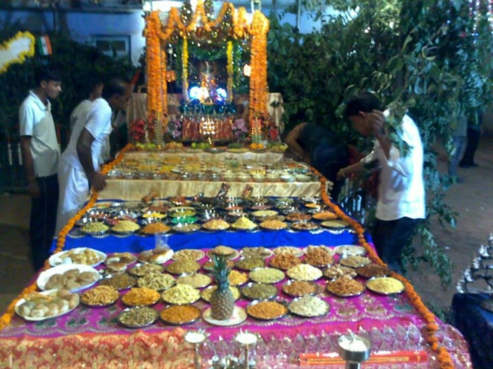 Navratri at Gozaria.